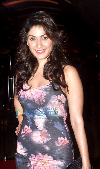 Manjari Fadnis at Sharafat Gayi Tel Lene's launch